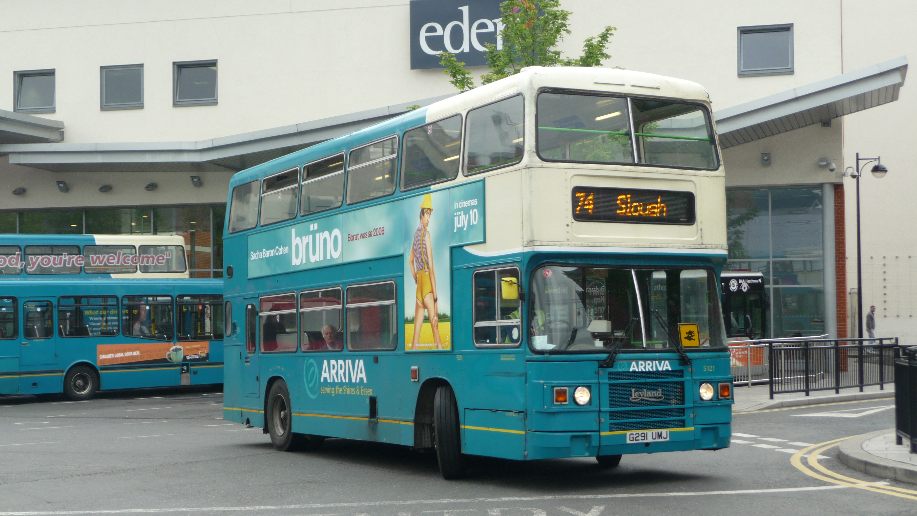 Arriva The Shires 5121 (G291 UMJ), a Leyland-bodied Leyland Olympian, leaving High Wycombe bus station into Bridge Street, High Wycombe, Buckinghamshire, on route 74, which is operated under competition from First Berkshire.